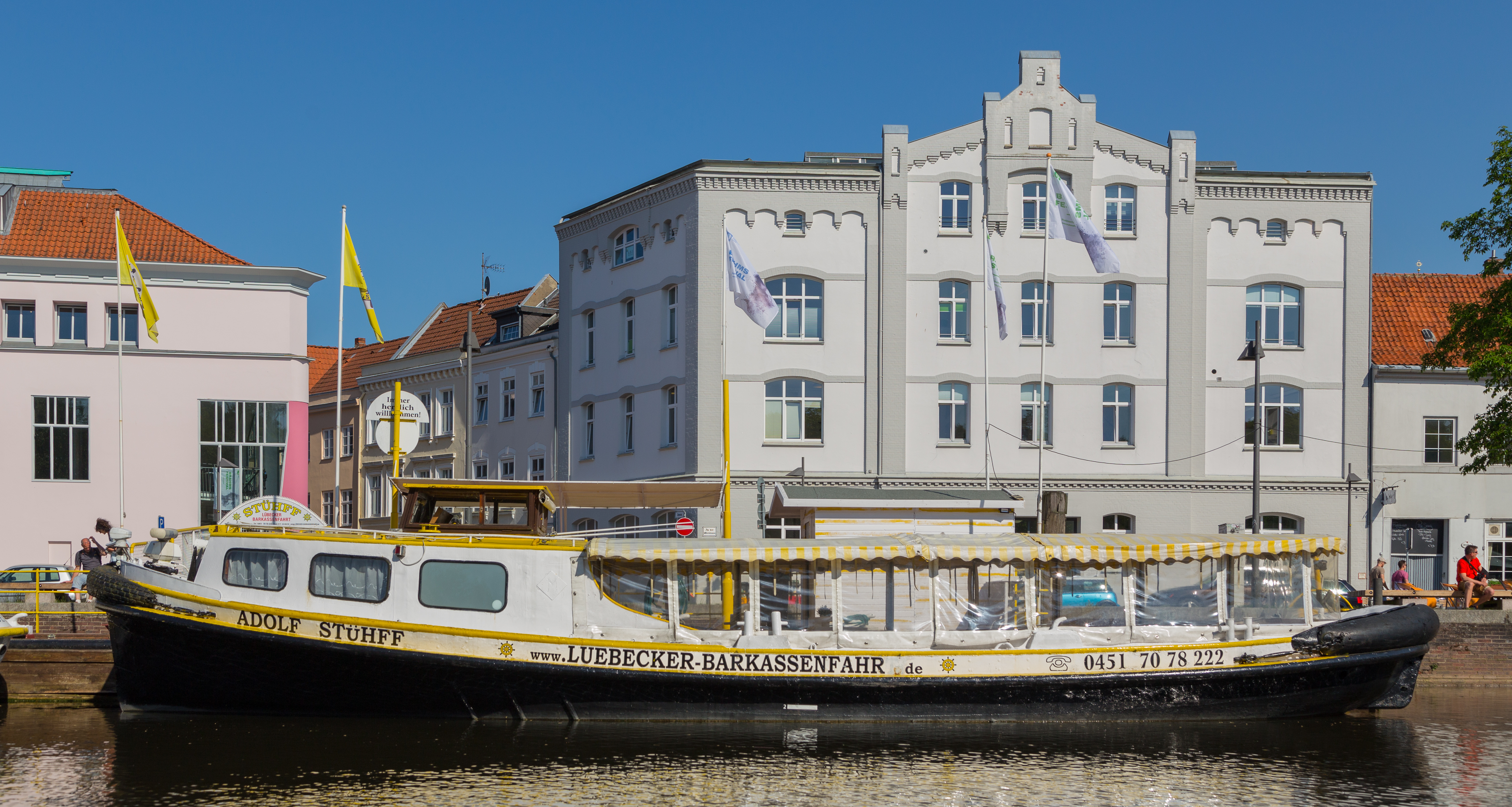 Buildings situated on the street At the Obertrave (among them An der Obertrave 16a) in the Hanseatic City of Lübeck (Lübeck-Altstadt), Lübeck, Schleswig-Holstein, Germany.